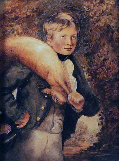 Portrait of George Bingham, 3rd Earl of Lucan (1800-1888) as a boy, carrying a hare pencil and watercolour 19 x 13.9 cm. Christie's attributes this painting to Lady Elizabeth Harcourt (1739-1811). The nameplate on the frame says that it was painted in 1814 by his sister Lady Elizabeth Harcourt (1795-1838)